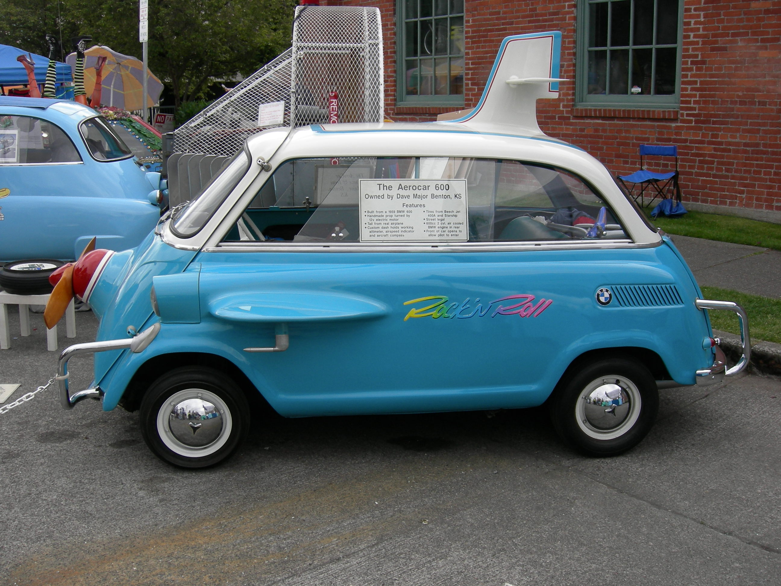 Art car: Aerocar 600, fantasy flying car, 2007 Fremont Fair, Seattle, Washington.